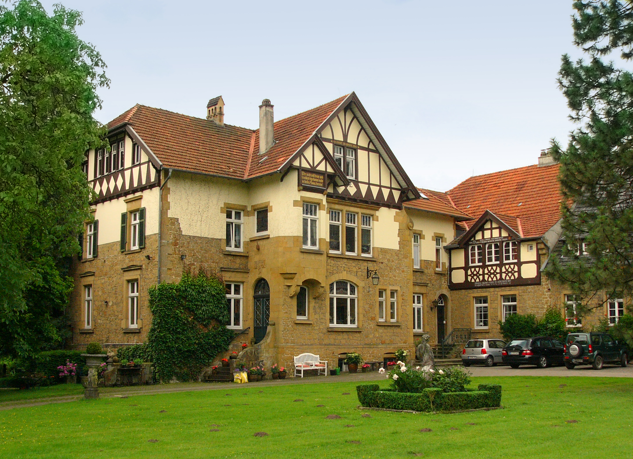 Manor Menkhausen in Oerlinghausen, Germany.